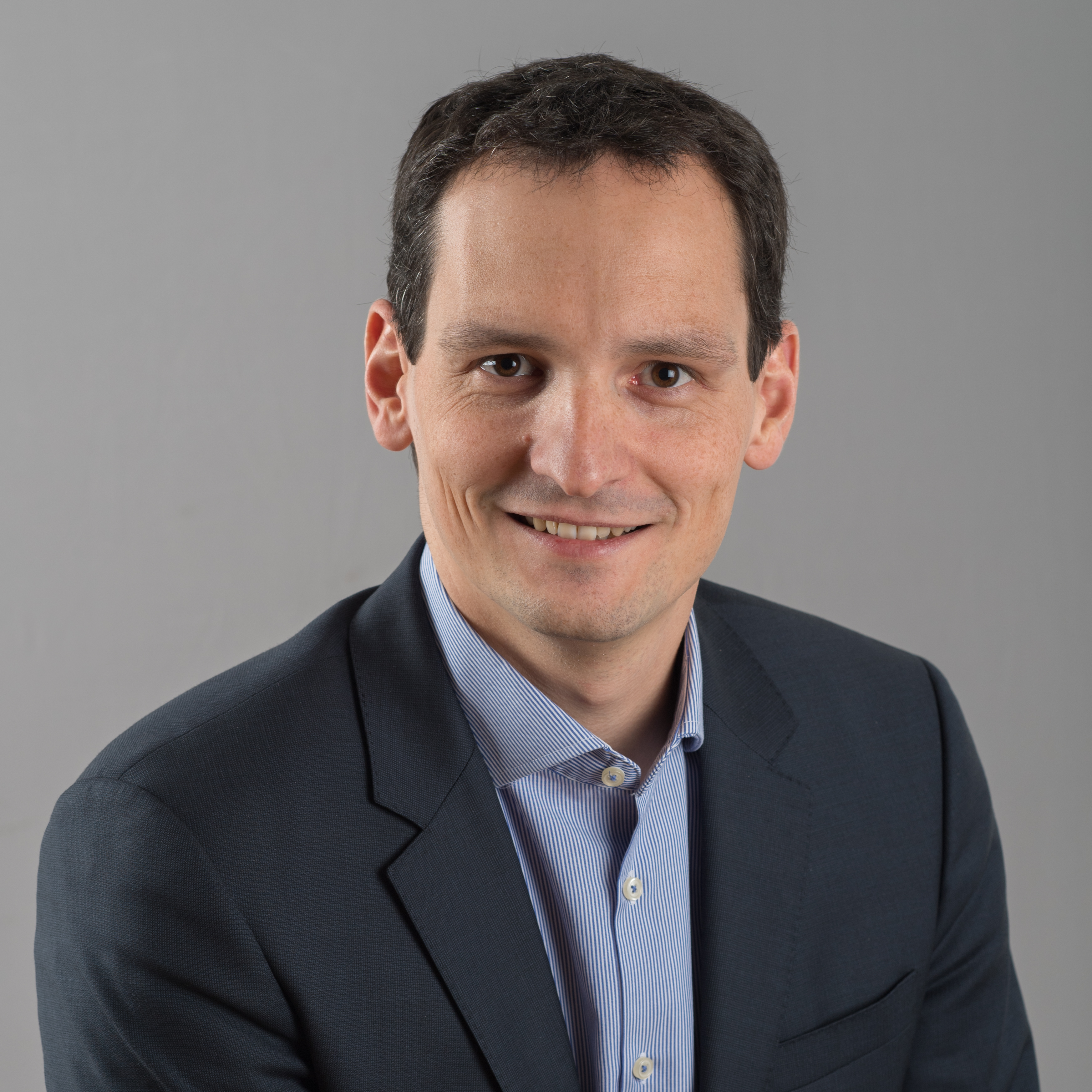 13/12/17, Bregenz/Vorarlberg, Landtagsprojekt Vorarlberg. Image shows Julian Fässler (ÖVP).